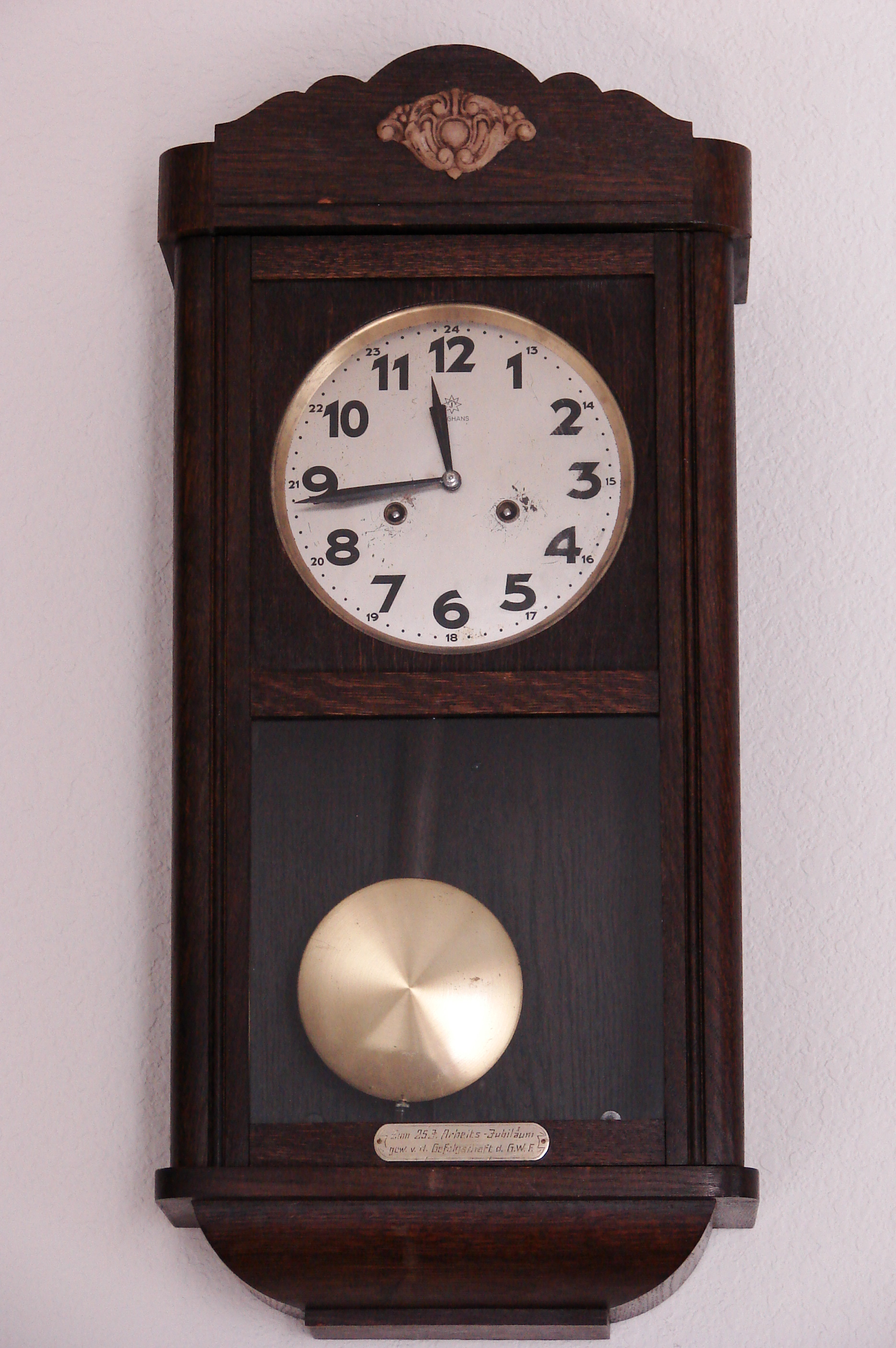 Old pendulum box clock made by Junghans (Schramberg, Germany), ca 1886.